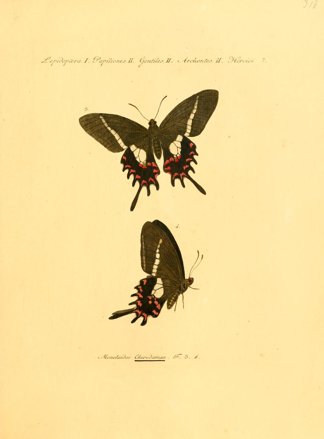 Jacob Hübner, [1821] Sammlung exotischer Schmetterlinge Vol. 2 ([1819] - [1827] Plate 104 Menelaides chirodamas Hübner, [1825] synonym for Papilio hectorides Esper, 1794